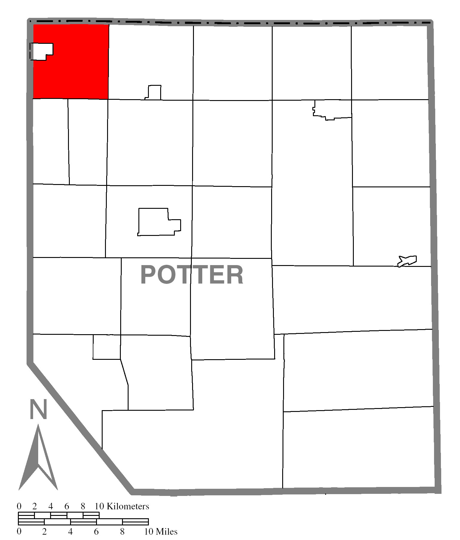 A map of Potter County showing Sharon Township, Pennsylvania (alternate) highlighted on the map.